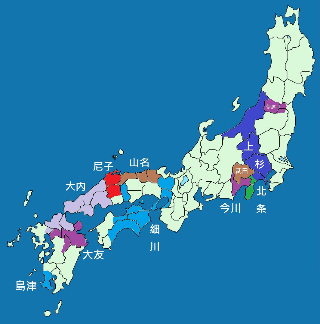 Edited from Maps_of_the_former_provinces_of_Japan